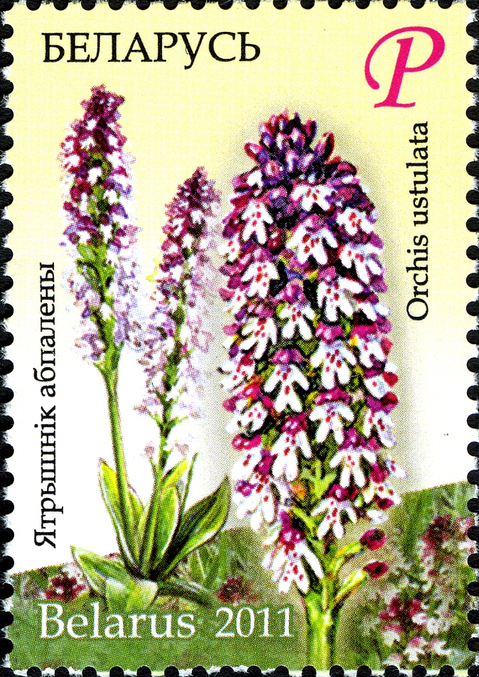 Stamp of Belarus